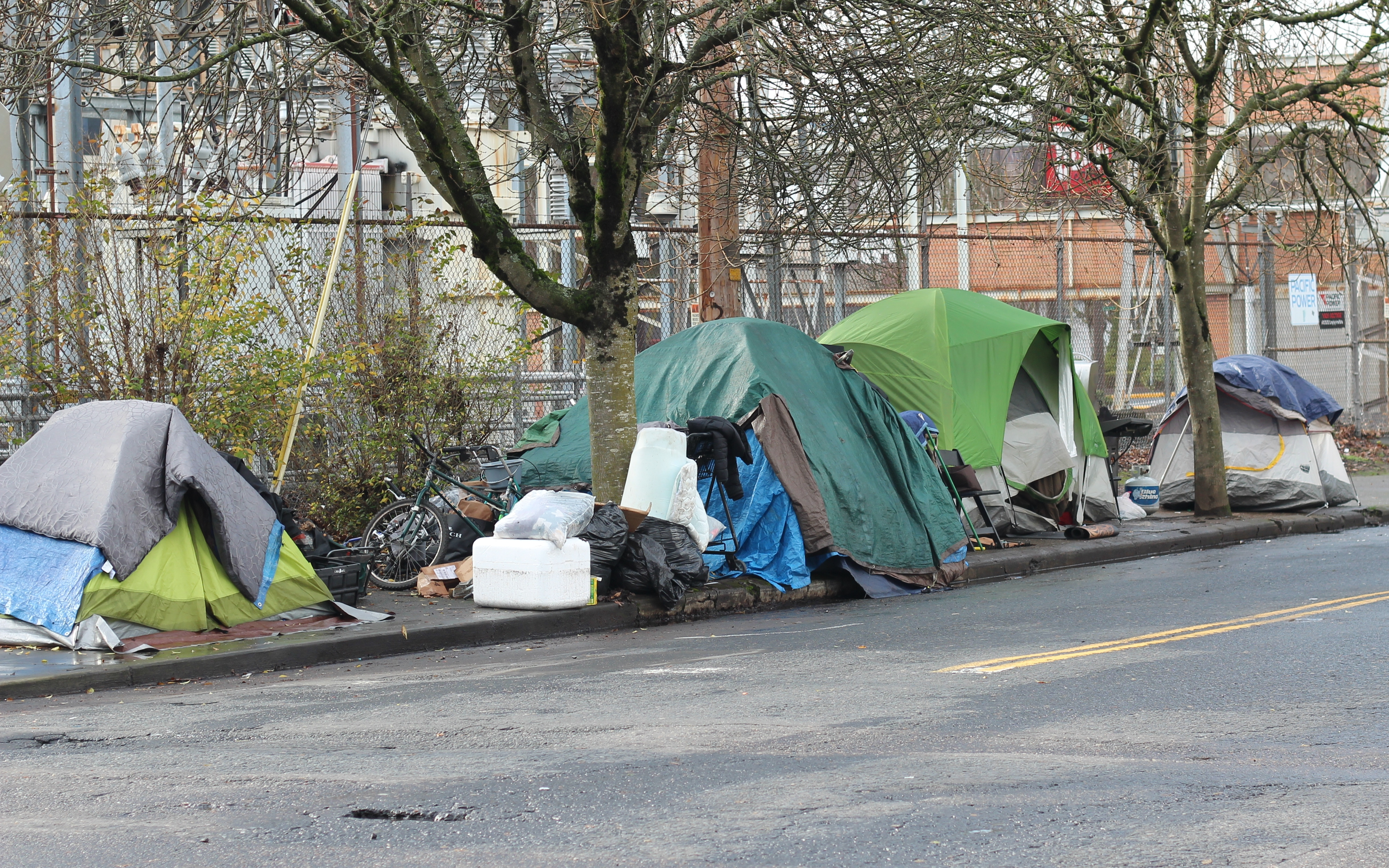 Transient encampment in Northeast Portland.